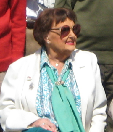 The English actress Pamela Cundell during a Dad's Army celebration at Bressingham Steam Museum in Norfolk, May 2011.